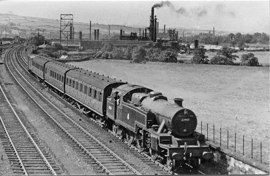 Eastbound local train on Calder Valley main line between Mirfield and Thornhill. View westward, towards Mirfield, Sowerby Bridge, Todmorden, Huddersfield and Manchester. The train is headed by Stanier 4P 2-6-4T No 42463.